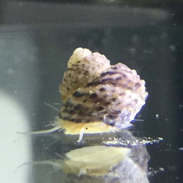 Herpetopoma sp grazing on the tank